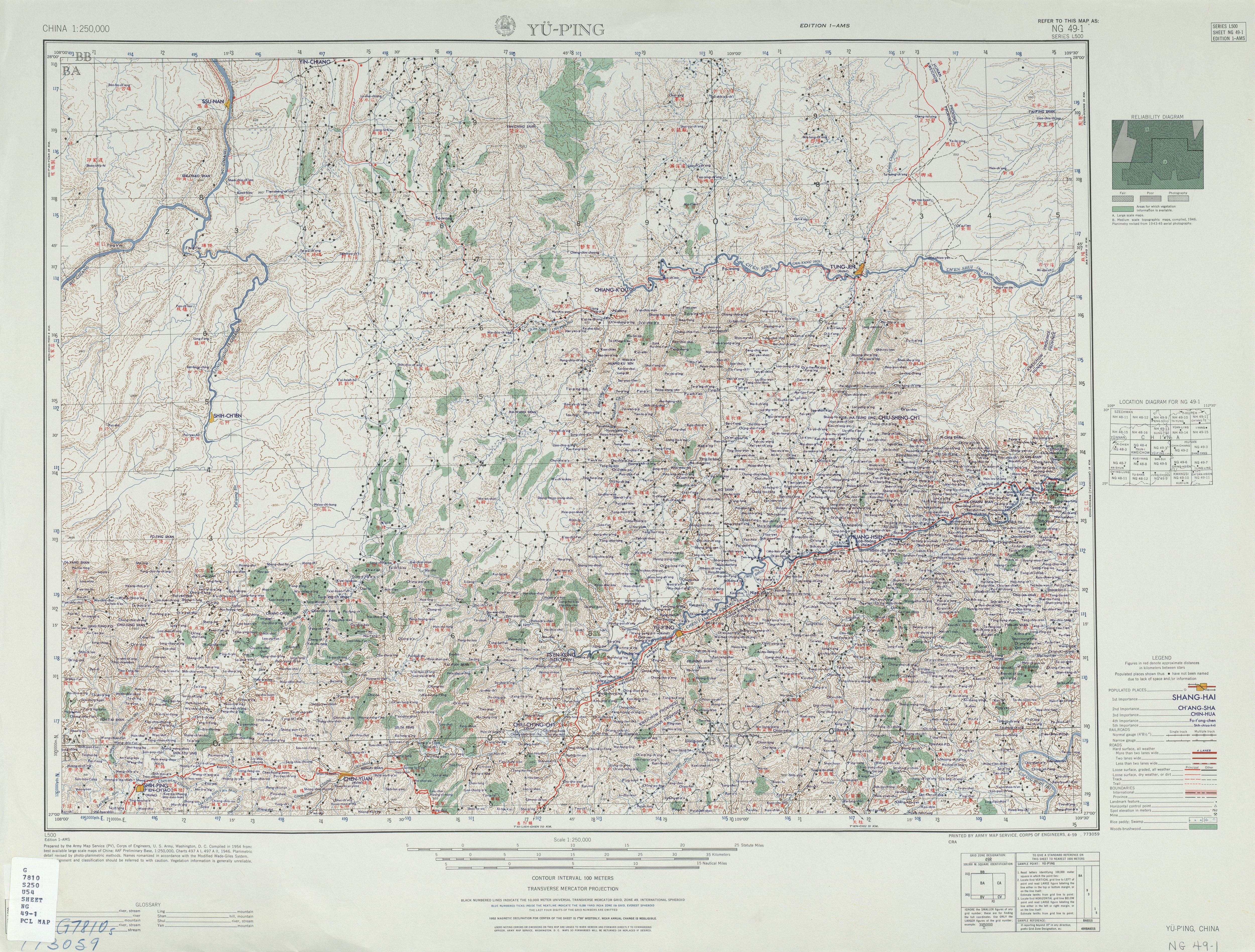 China AMS Topographic Maps